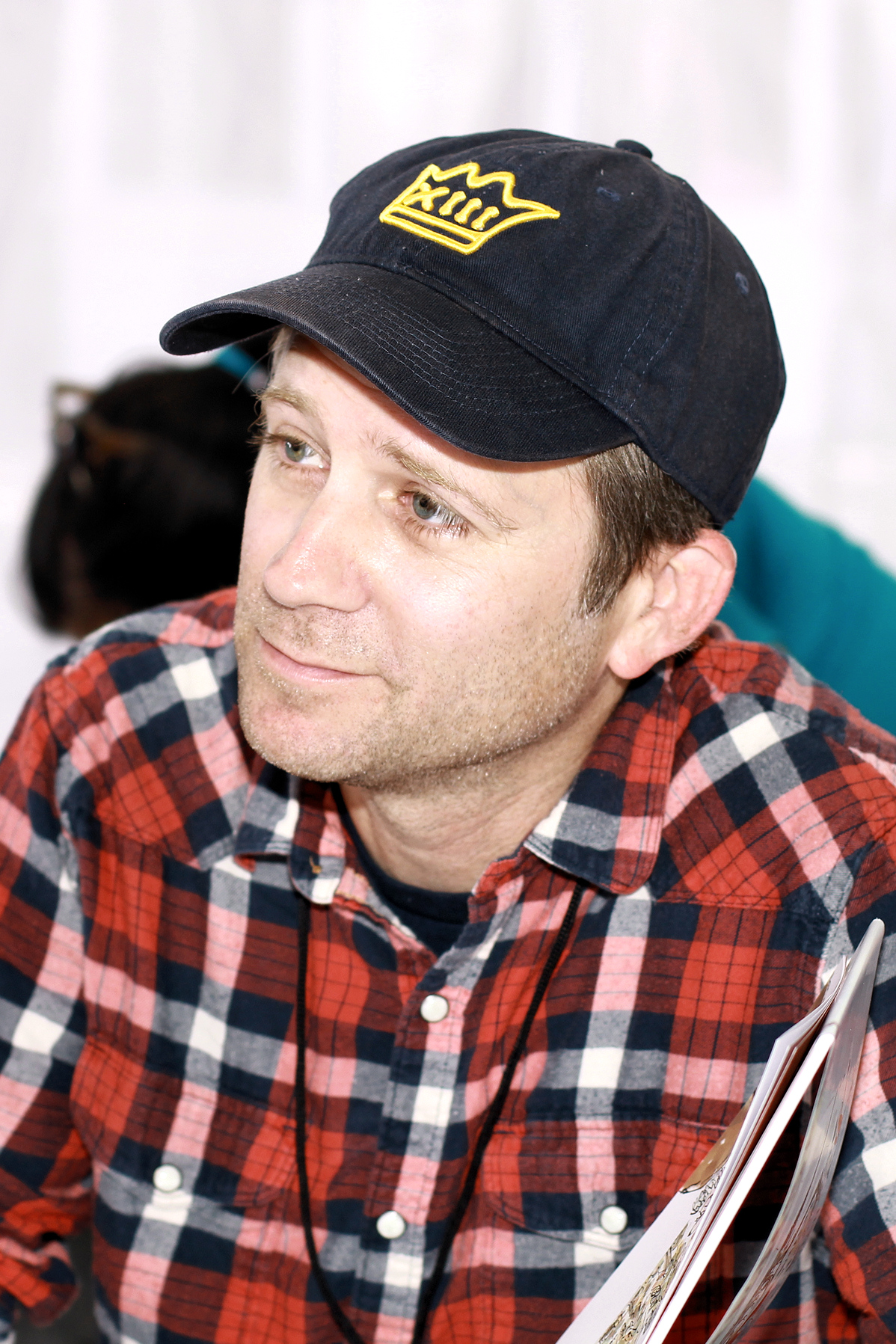 Author Matthew Cordell at the 2019 Texas Book Festival in Austin, Texas, United States.